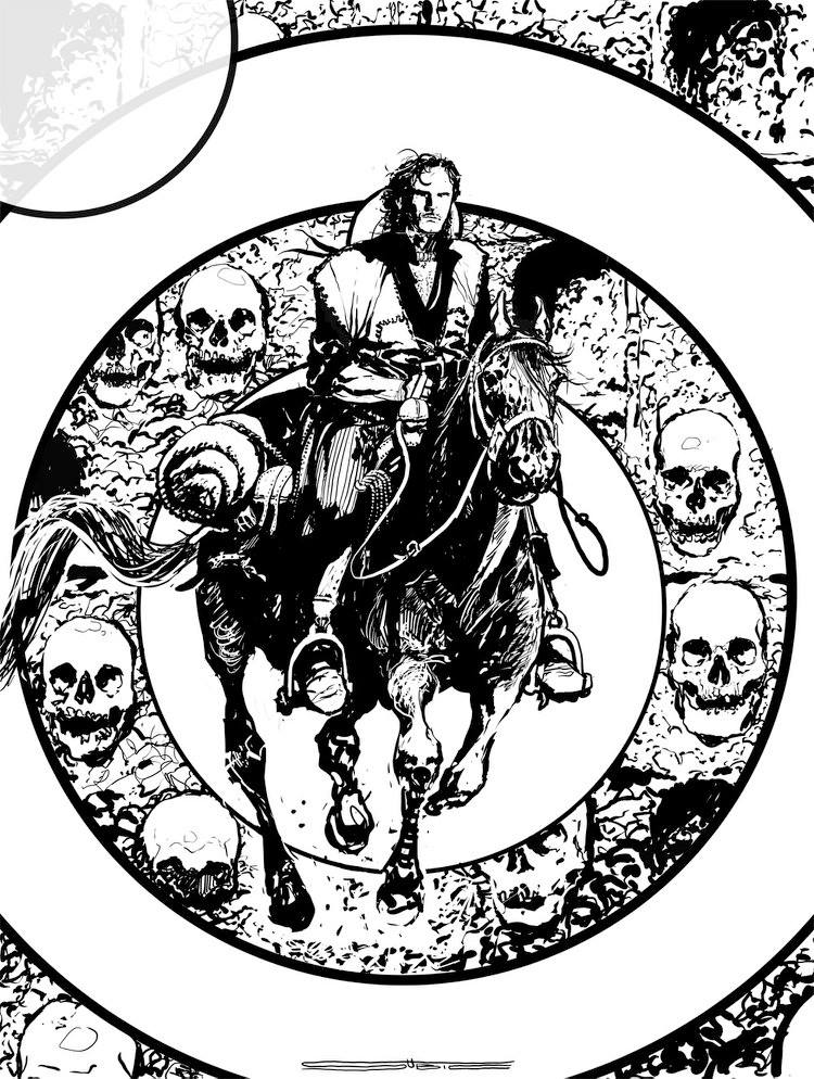 Stevan Subić. Poster for "Striporama fest", Niš 2016.